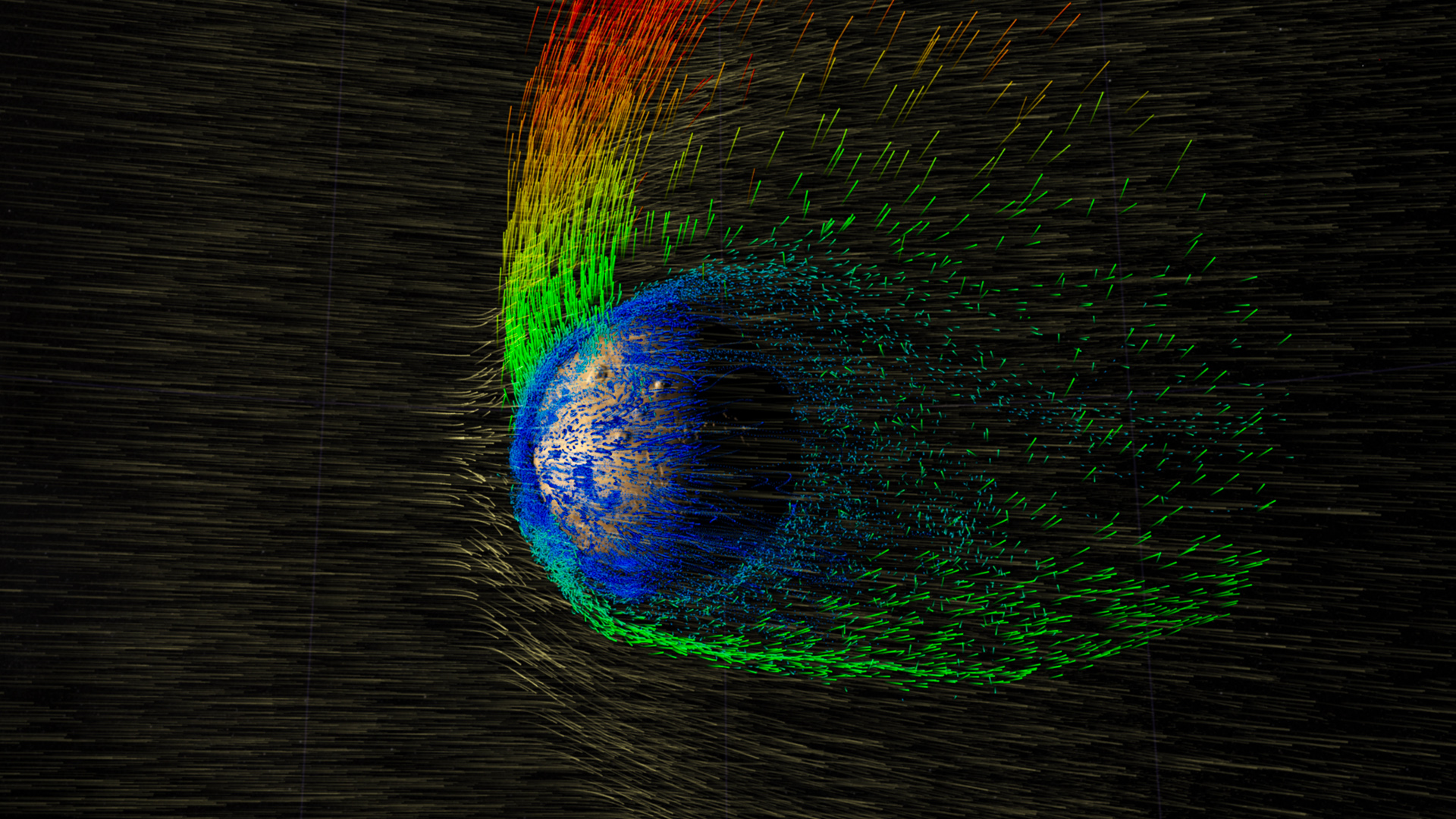 Maven spacecraft : Visualizing Mars' Atmosphere Loss Mars today is a cold, barren desert, but scientists think it was once a warm and wet planet. The change may have been caused by the loss of an early atmosphere driven into space by the sun’s solar wind. Unlike Earth, Mars lacks a global magnetic field that deflects the stream of charged particles continuously blowing off the sun. Instead, the solar wind crashes into the planet’s upper atmosphere, stripping away electrically charged gas atoms, called ions (depicted here in a simulation). Charged particles from the Mars upper atmosphere, seen here in color, feel the pull of the electric field generated by the solar wind. These particles, or ions, can pick up sufficient energy from the electric field to escape into space. In this simulation, green particles represent medium-energy ions swept back in the wake of the solar wind. High-energy ions, in yellow and red, follow the electric field in a "polar plume" above Mars. NASA’s MAVEN spacecraft, which entered orbit around Mars in September 2014, measures the speed and direction of escaping ions to observe the process of how Mars’ atmosphere is eroded by the solar wind. Measurements show the rate of ion loss increases during periods of extreme solar activity, suggesting a younger and more active sun billions of years ago likely played a significant role in transforming the Red Planet.